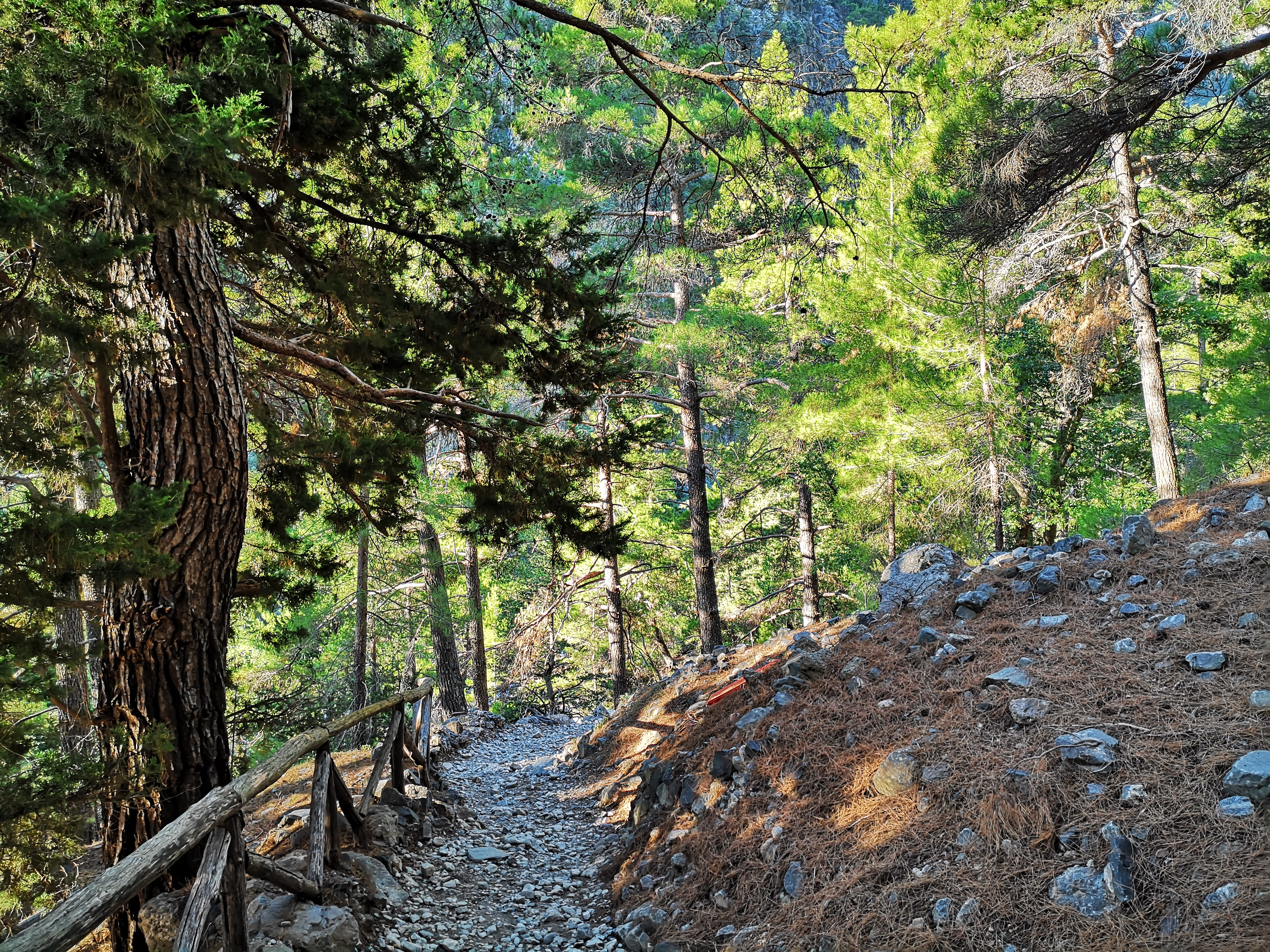 This is a photography of Natura 2000 protected area with ID GR4340014